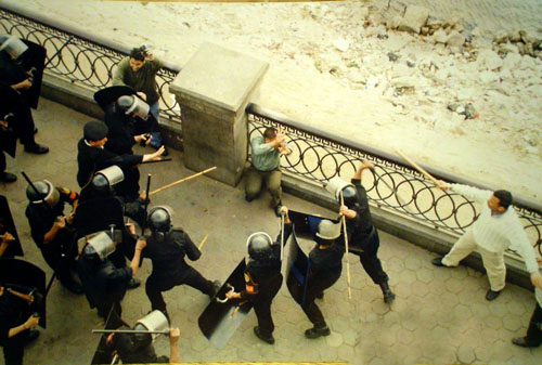 Photo by Matthew Carrington; featured on Noha Atef's blog which documented and exposed state and domestic brutality in Egypt.